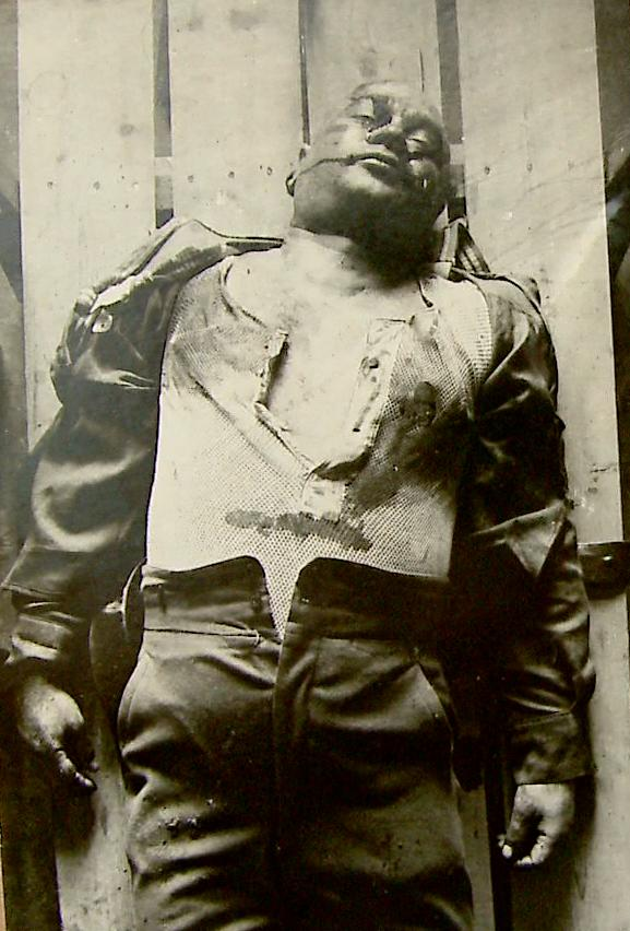 Grigory Kotovsky after his death.